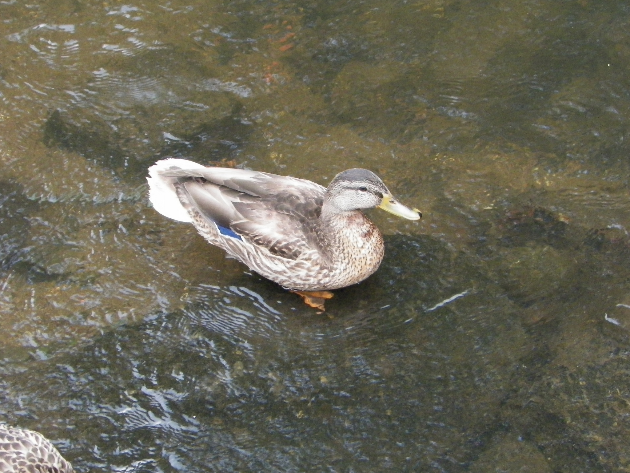 Mallard Anas platyrhynchos in Passaic River, NJ.